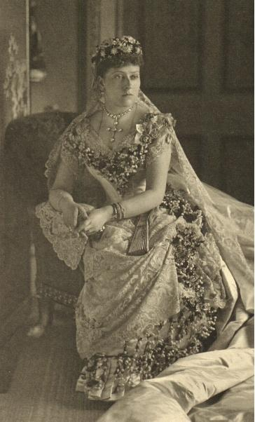 Princess Beatrice of the United Kingdom in her wedding dress, 1885